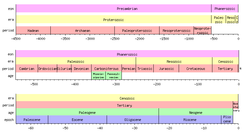 Graphical Timeline of Geological Periods - produced with EasyTimeline.pl This image can be updated by adapting the input script and generating a new image. See discussion page for script.